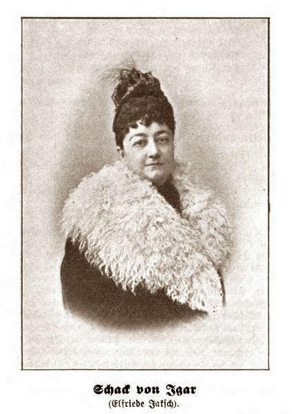 Portrait of Elfriede Jaksch (Schack von Igar)